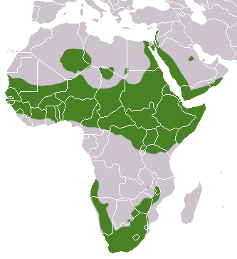 Rock Hyrax (Procavia capensis) range